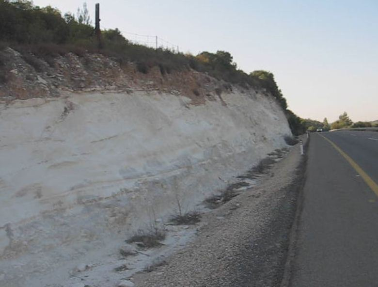 Chalk_with_cover_of_Caliche_Naari_a_road